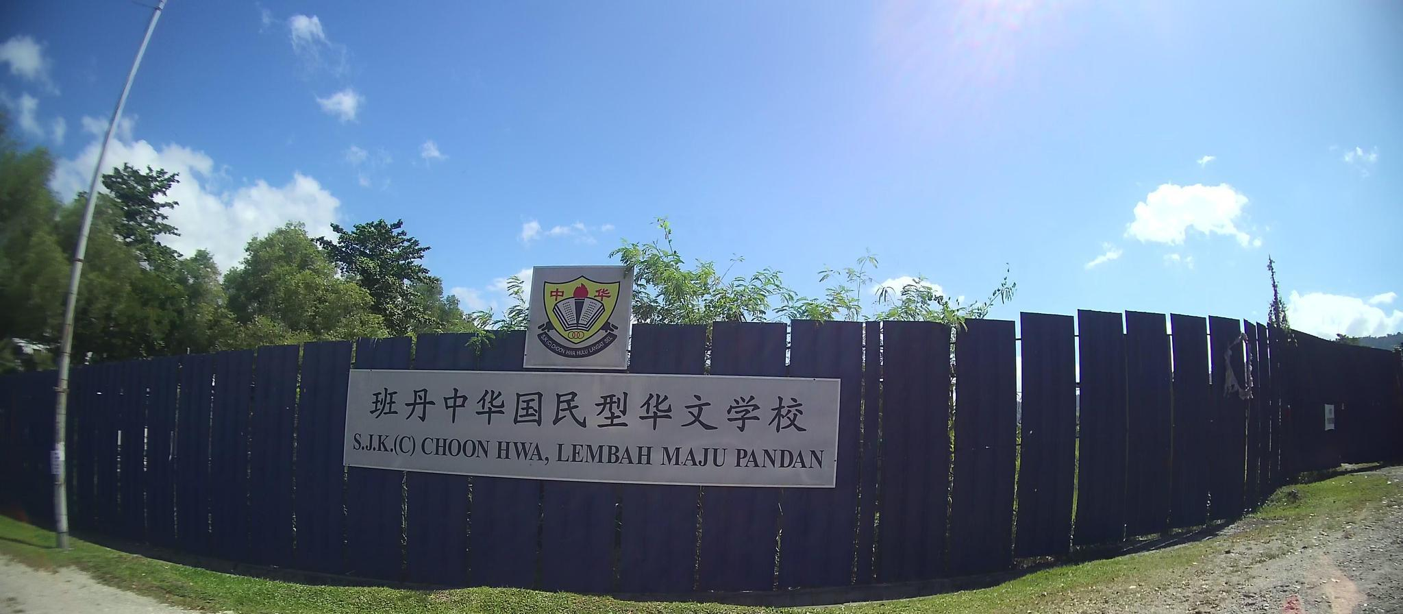 SJK (C) Choon Hwa, Lembah Maju